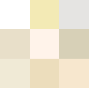 Shades of white